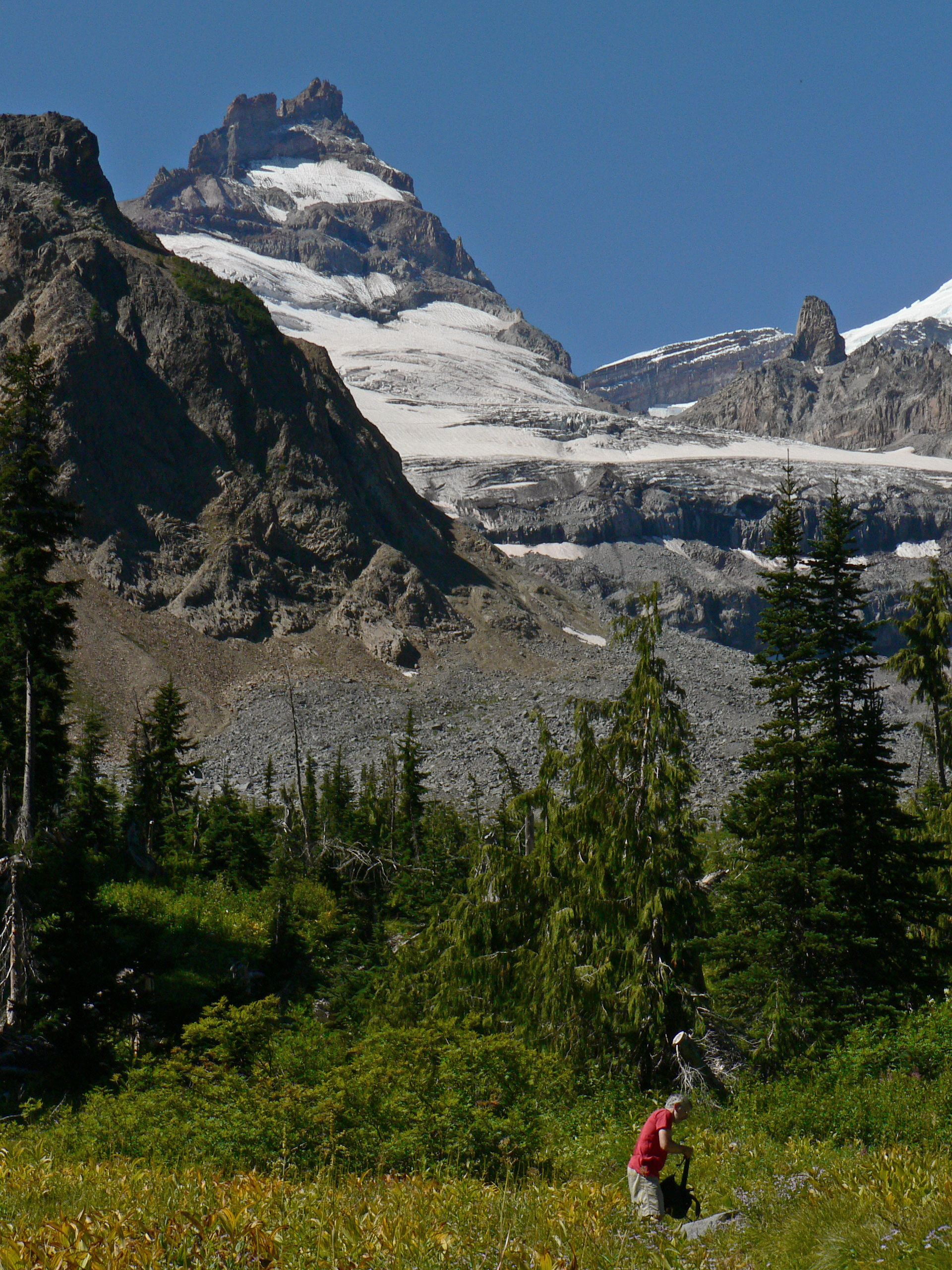 Little Tahoma (11138 feet, 3395 m); Fryingpan Glacier